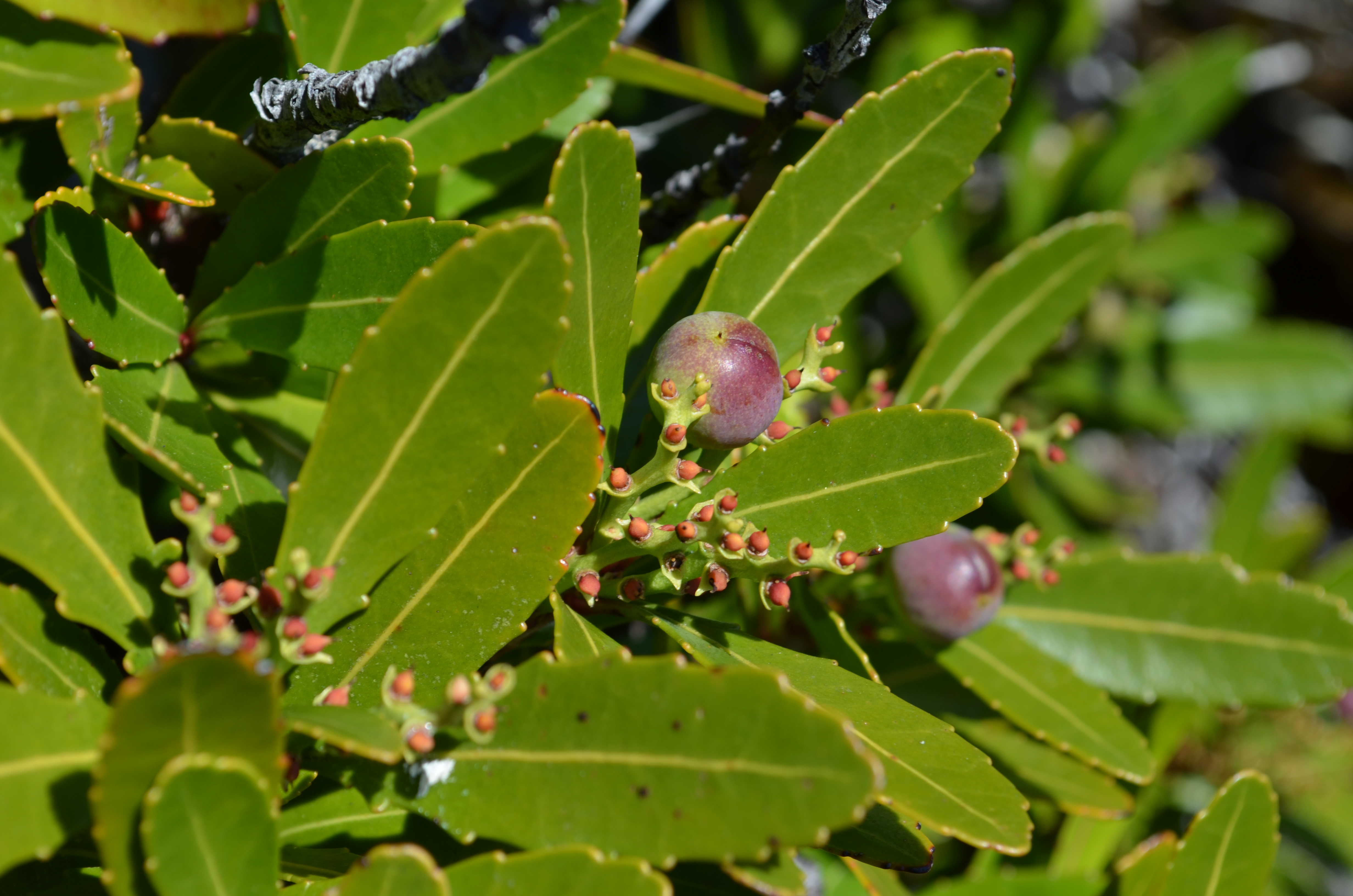 Cenarrhenes nitida